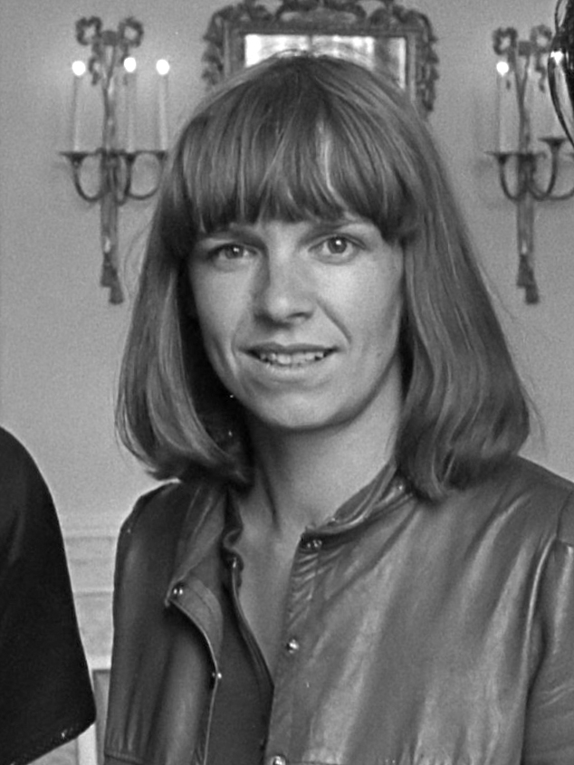 The violinist Vera Beths (Holland Festival 1976.)